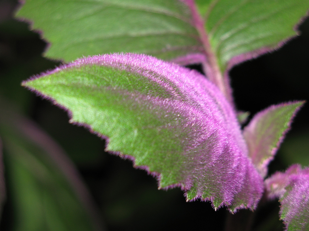 Gynura aurantiaca